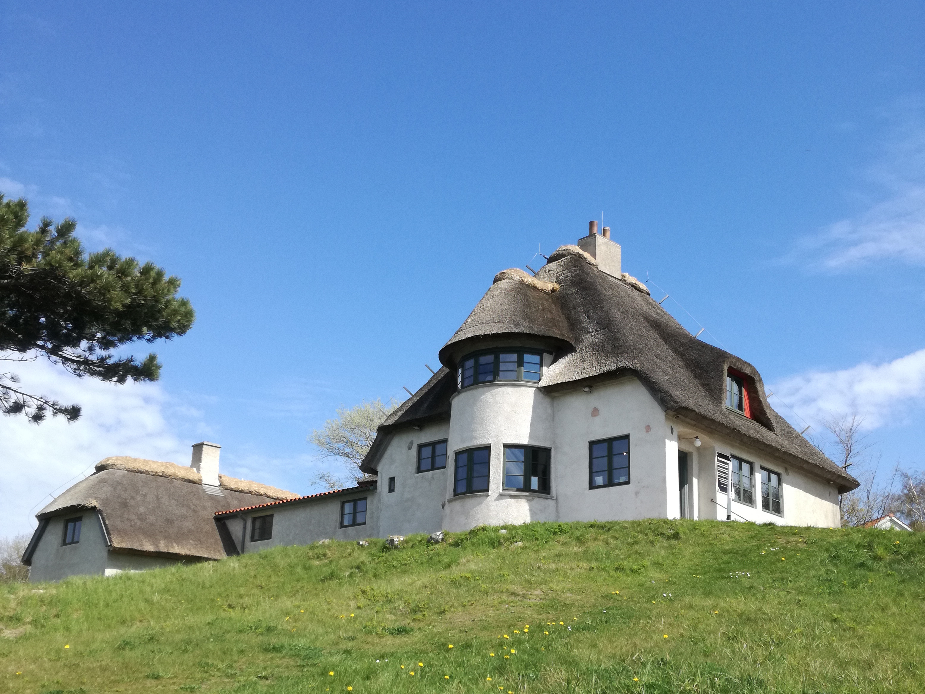 The house in which the Danish polar scientist Knud Rasmussen worked during his stays in Denmark.